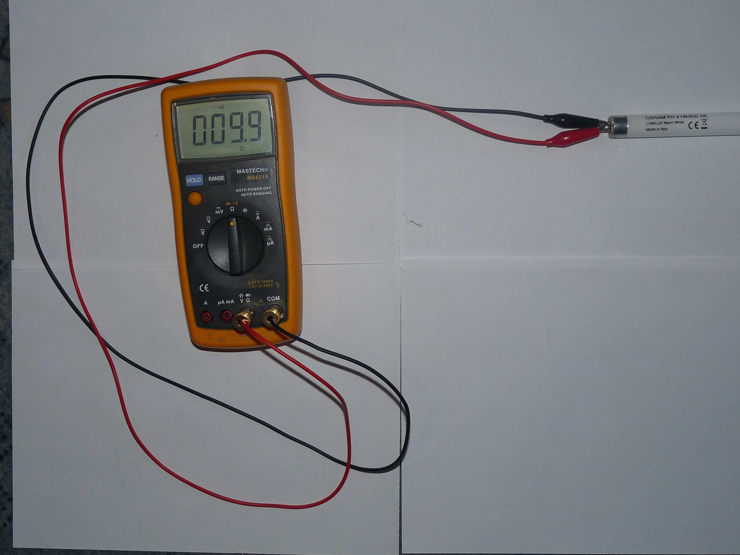 Filament checking in fluorescent bulb. Resistance 9.9Ω shows, that filament is efficient.